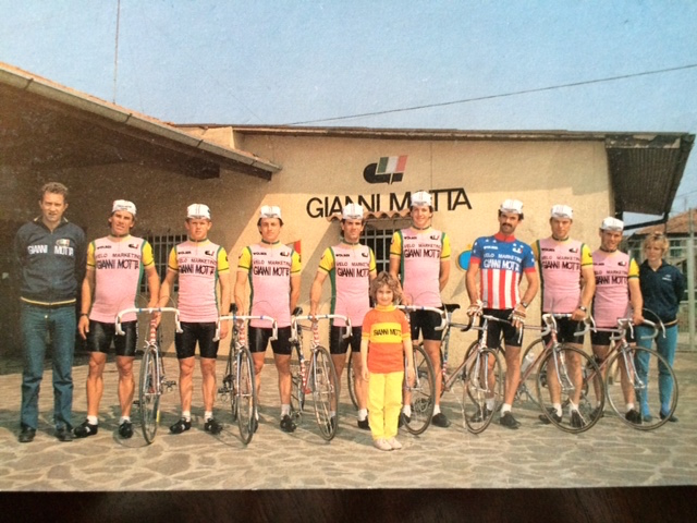 1984 Photo of the Gianni Motto - Velo Marketing team in Italy